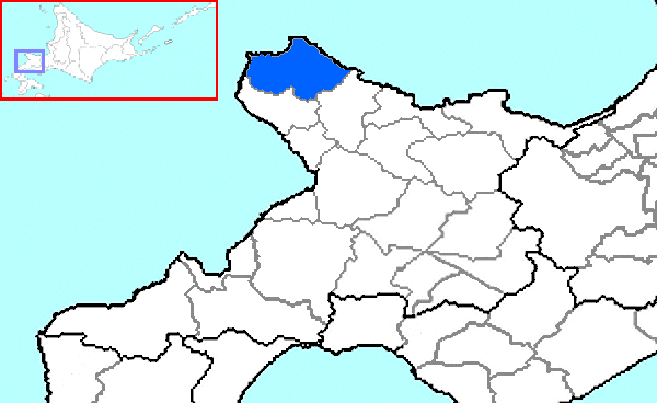 The location of Shakotan in Shiribeshi Subprefecture, Hokkaido Prefecture, Japan.